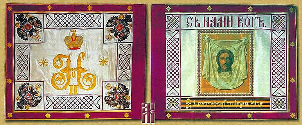 Flag of the Average 1st Siberian Army Corps (Siberian Army)